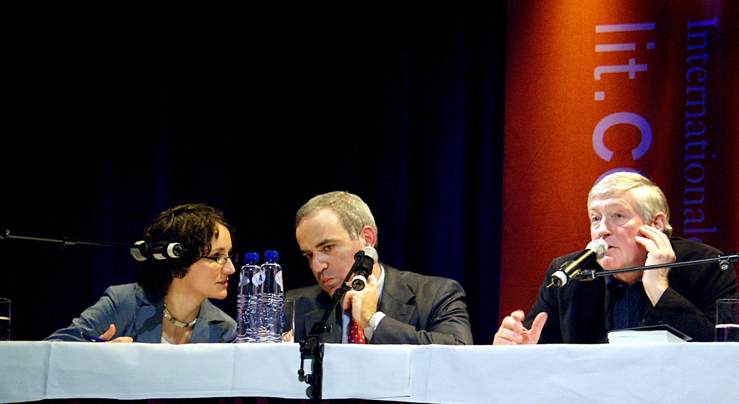 Interpreter Patricia Unflatn whispers interpreting to Garry Kasparov. Klaus Bednarz is speaking on the lit.Cologne 2007